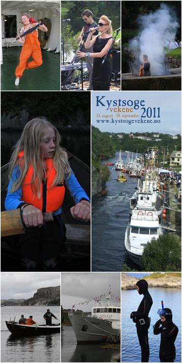 Opplevelser av kystkultur i 20 kommuner langs kysten av Hordaland og i Gulen, Norge